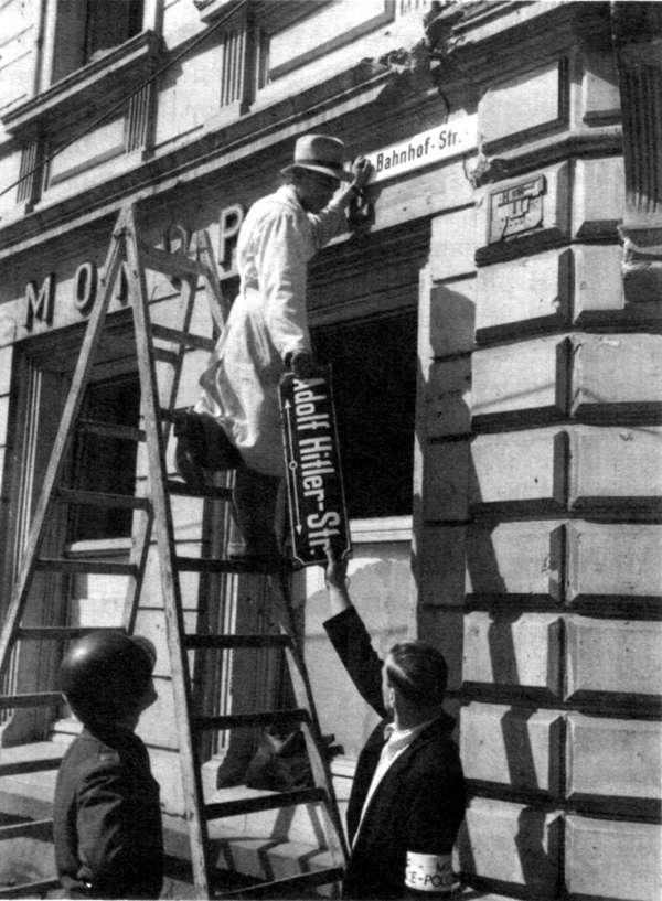 AN ERA PASSES as Germans exchange street signs, like here in Trier.